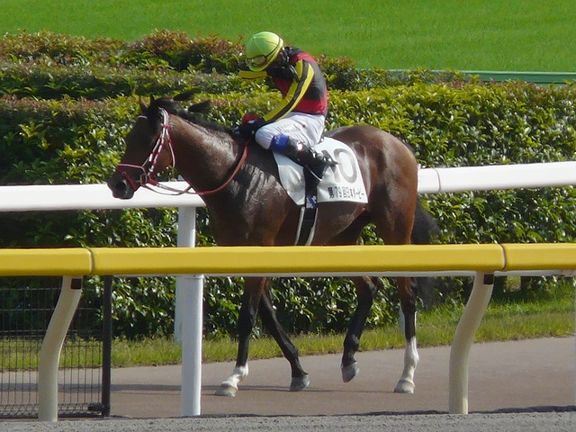 Yasunari-Iwata20120527-2